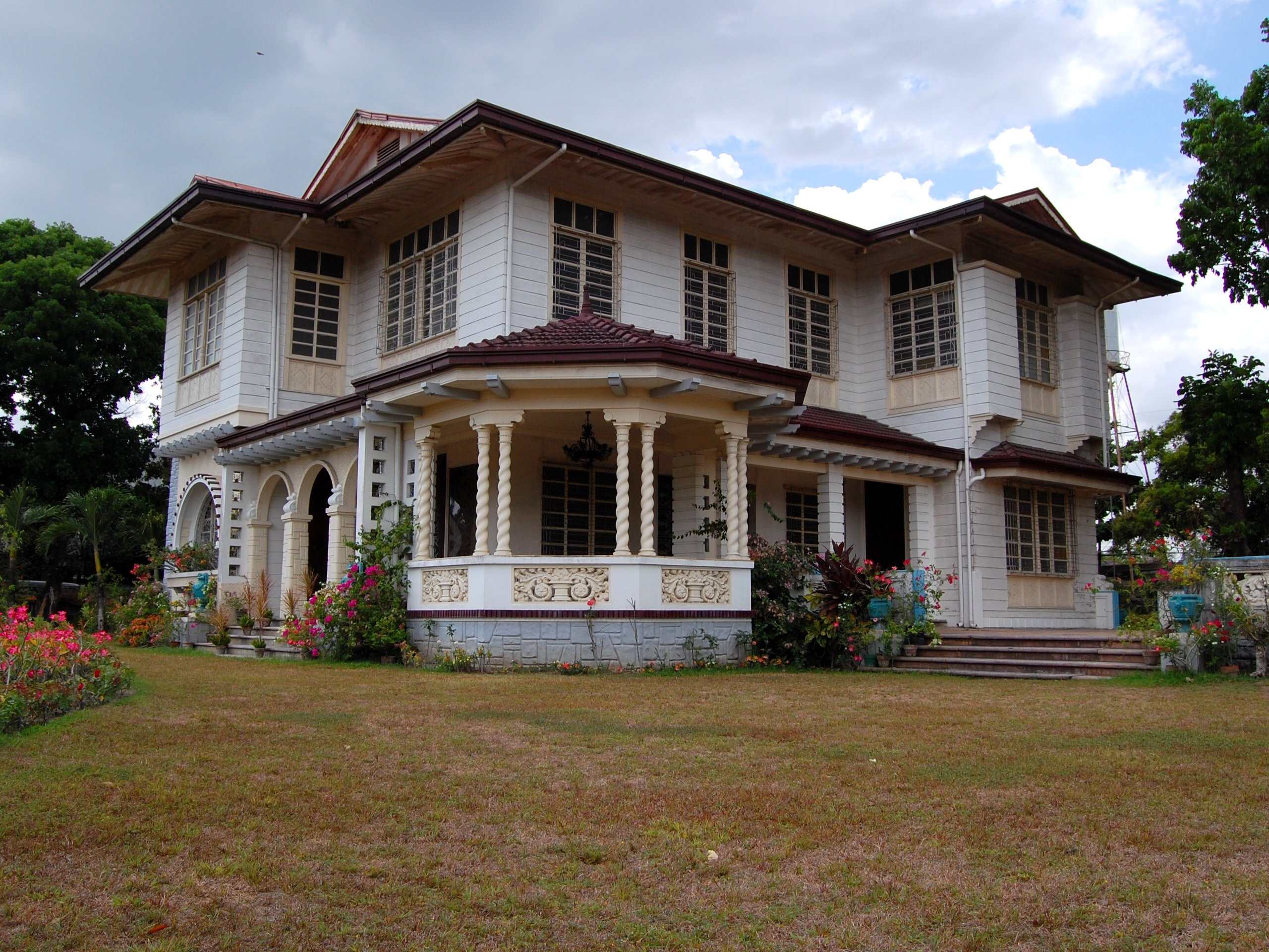 The late Sen. Benigno "Ninoy" Aquino, the murdered husband of Corazon "Cory" Aquino who became the 11th and first woman president of the Philippines, grew up in this house in Barangay San Jose, Concepcion, Tarlac. Nikon D40 (FPOP Anniversary Committee Meeting, April 2009)